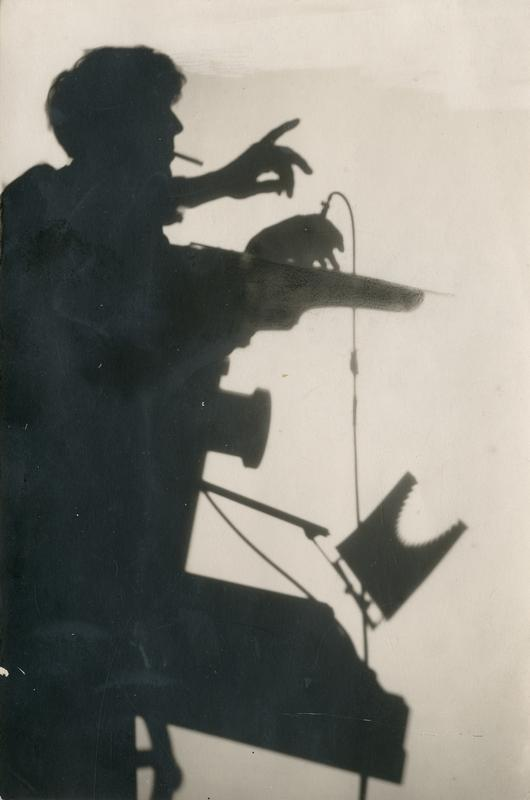 Self-portrait by photographer Franz Ziegler (1893-1939) / Photo made around 1930.